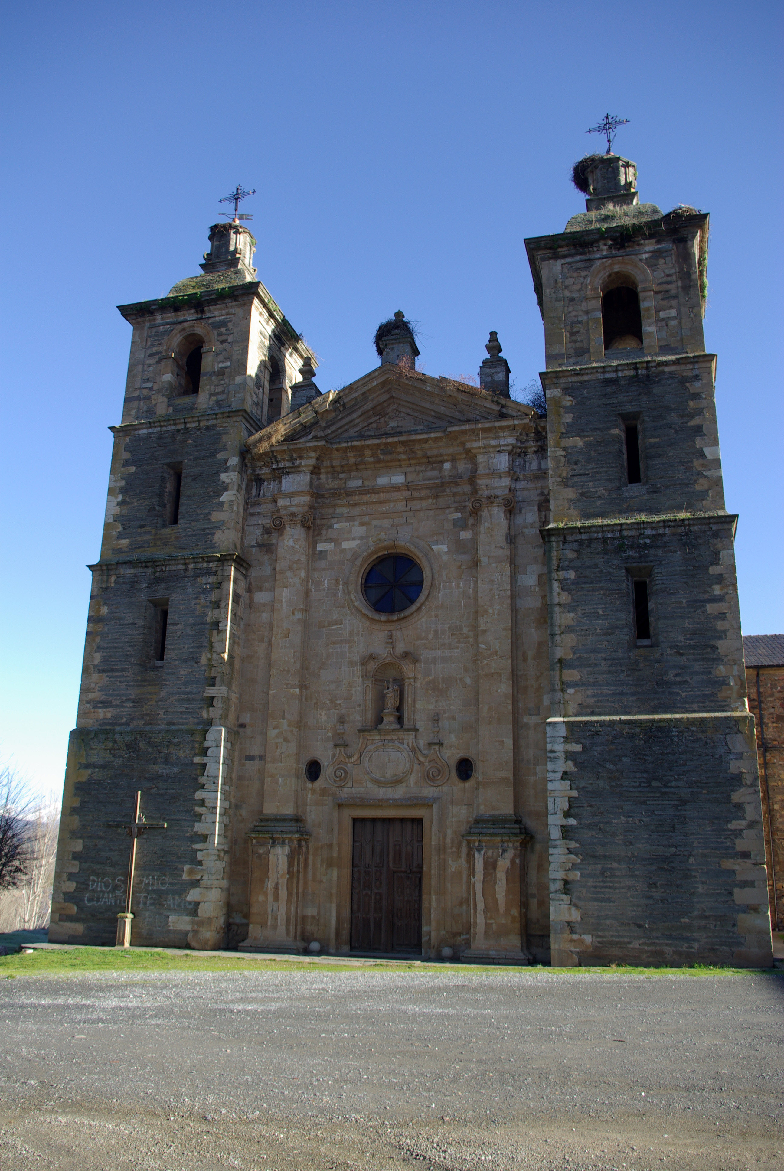 Saint Andrew of Espinareda Abbey in Vega de Espinareda (León, Spain). Main church facade.